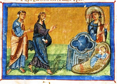 A miniature from the Georgian Synaxarium of Euthymius of Athos.